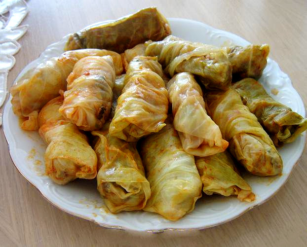 Sarma is originally a Turkish food